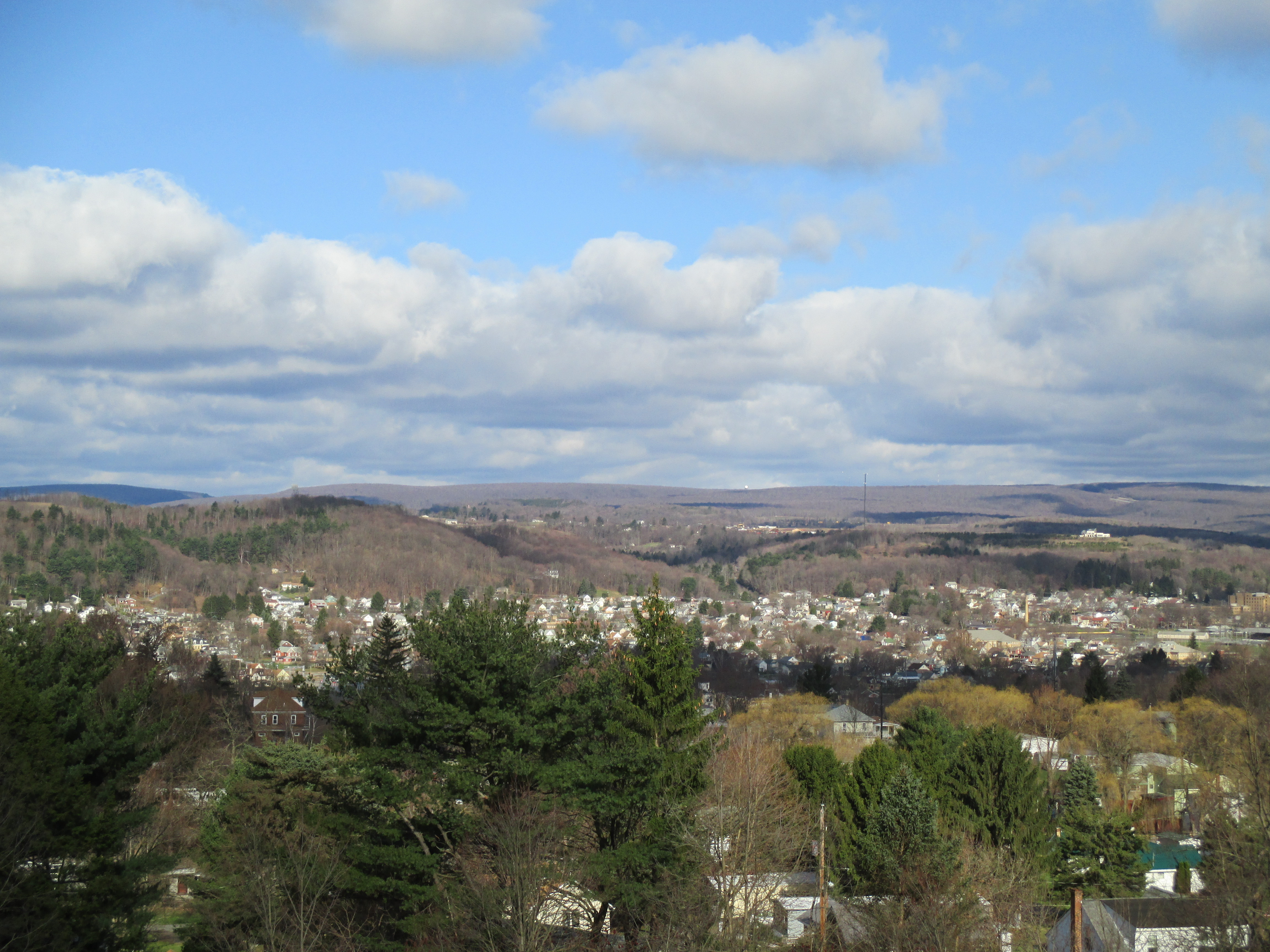 View of Clearfield borough looking west